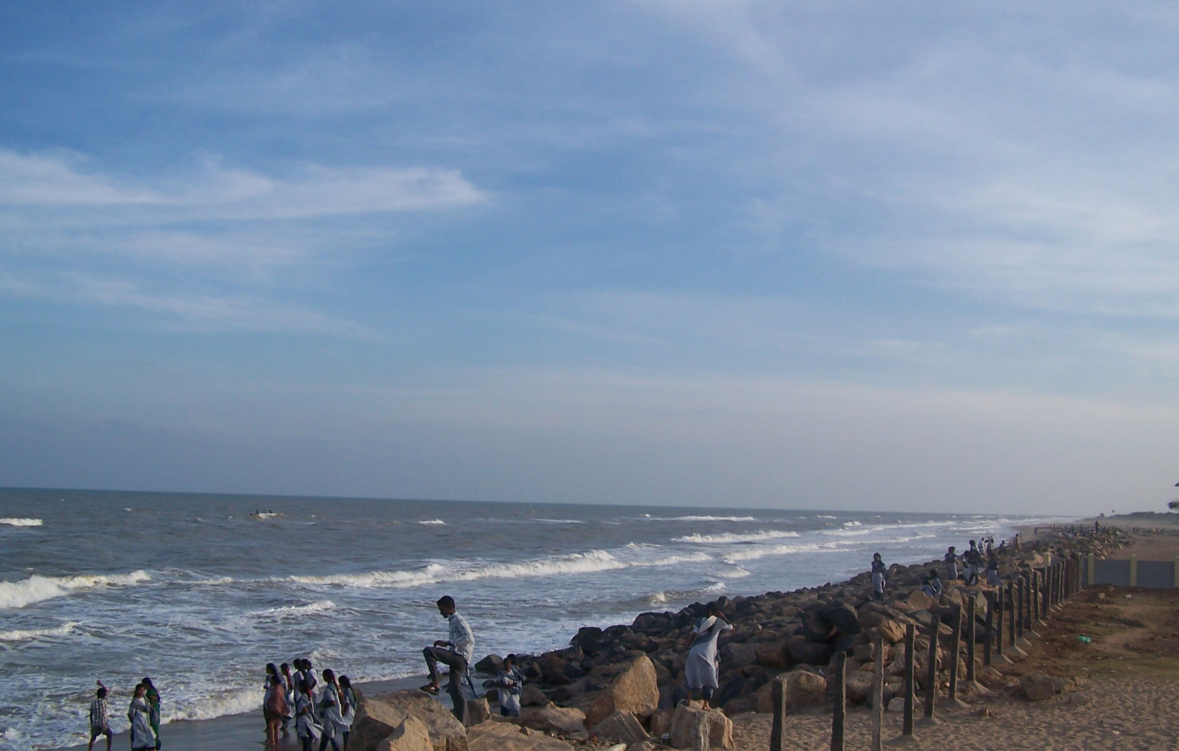 The environs of the Poompuhar beach, Tamilnadu - India